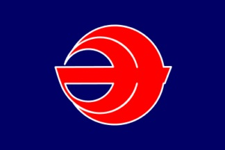 Flag of Minamimaki Nagano